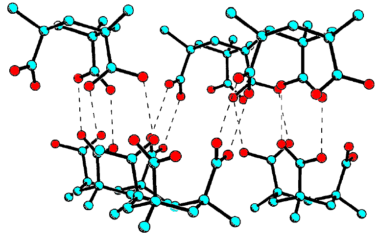 Kemp's triacid - crystal structure